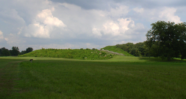 A photo of the main mound at the Angel Mounds Site in Evansville.